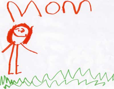 child art, intentional portrait of mother